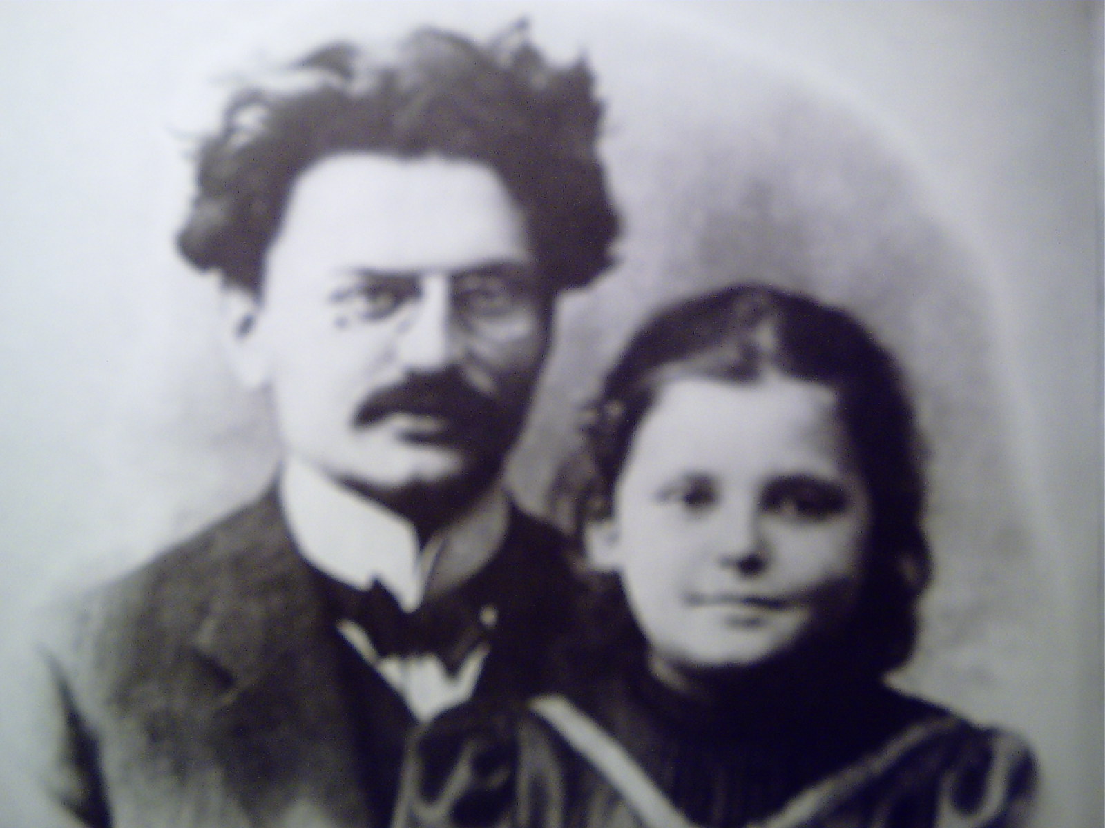 Lev Bronstejn Trotsky (1879-1940) con la figlia Zinaida Bronstejn (1901-1933)